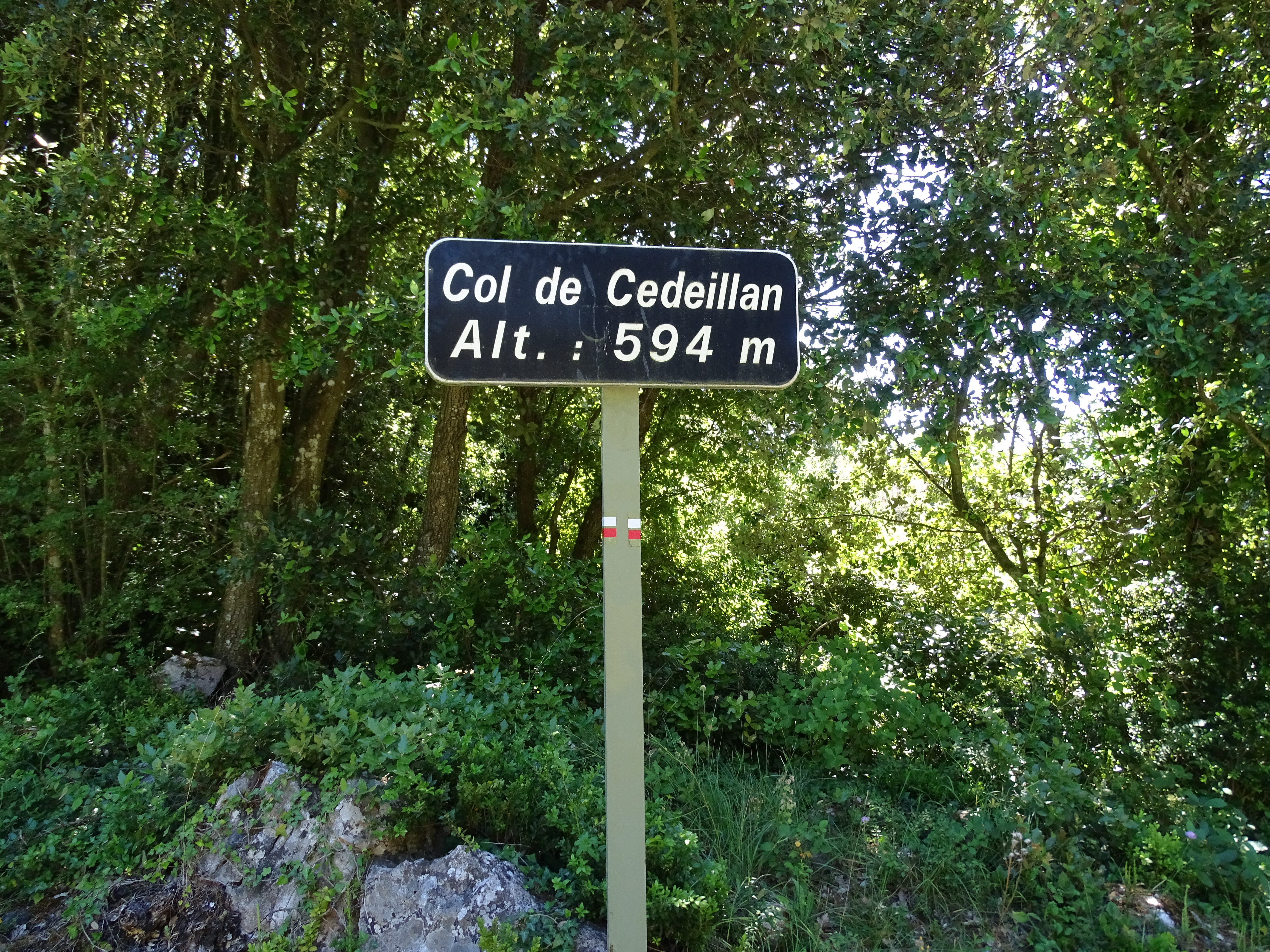 Road sign at Col de Cédeillan, Aude, France